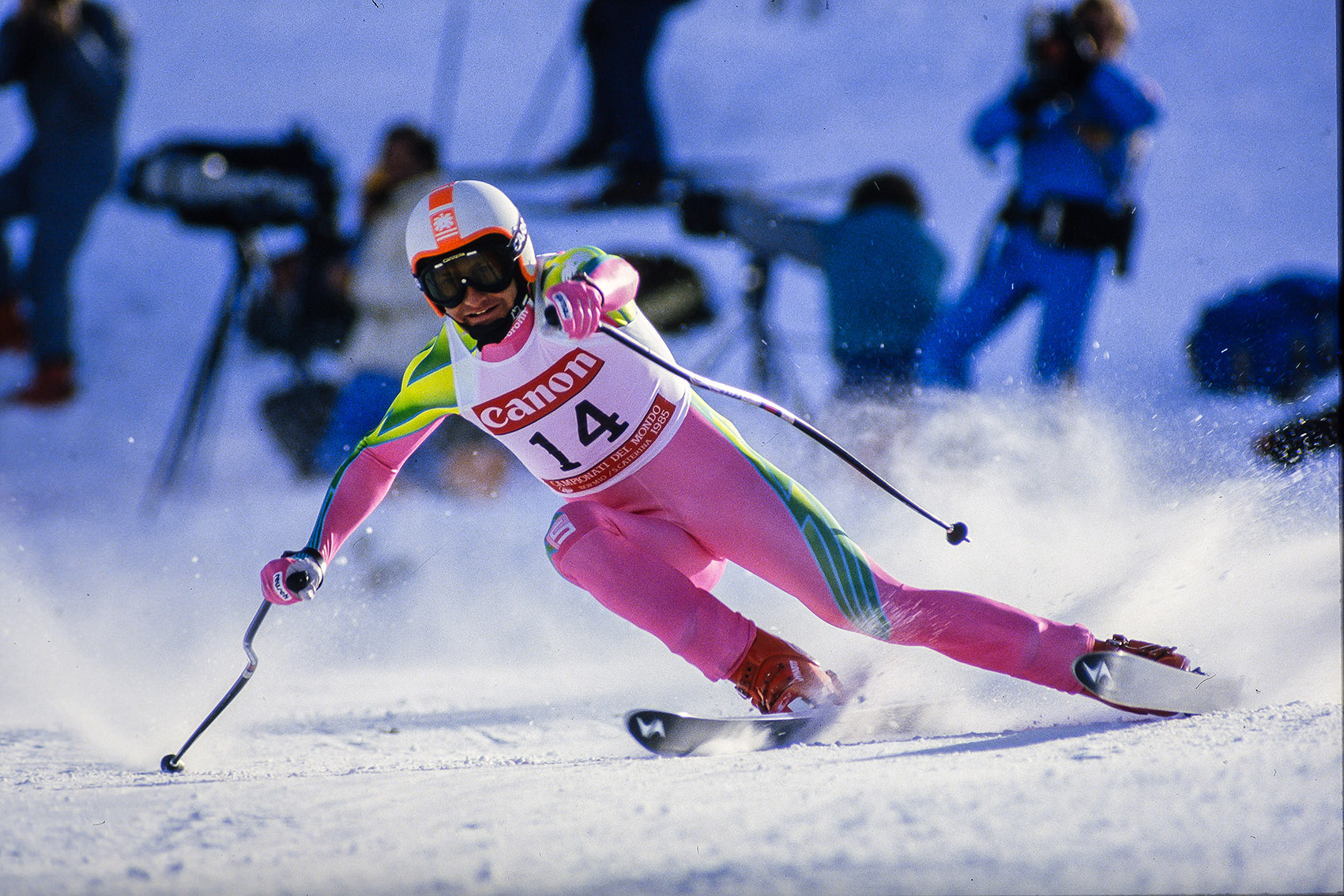 Franz Klammer, Ski World Cup Racer during 1973-1985